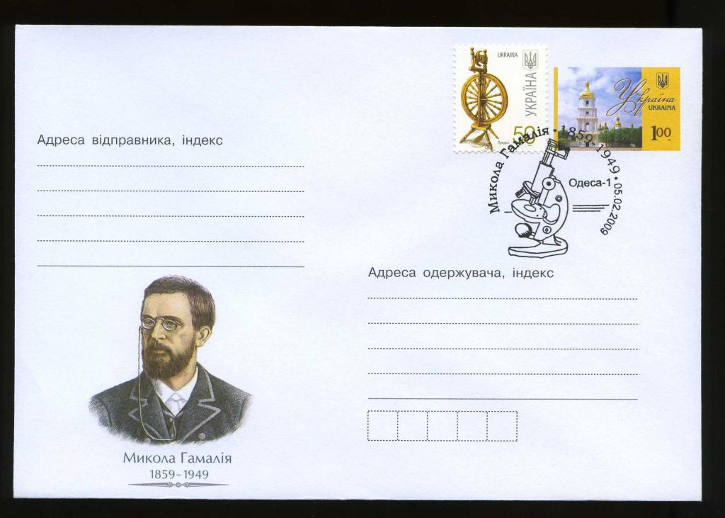 First-day cover of Mykola Hamaliya, Ukrainian scientist.